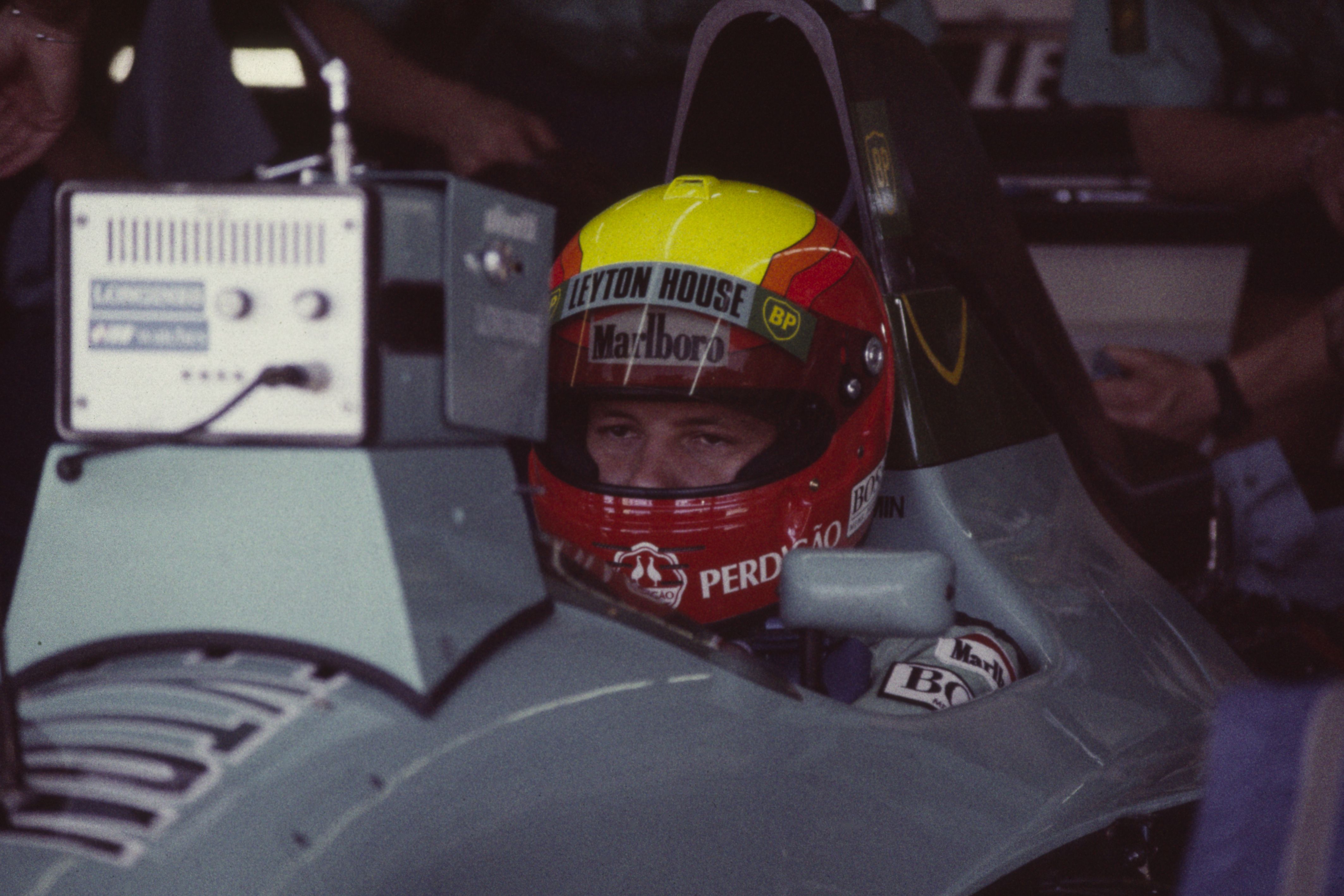 Mauricio Gugelmin in the Leyton House lmor 2175A - 1991 United States Grand Prix - Phoenix, Arizona.